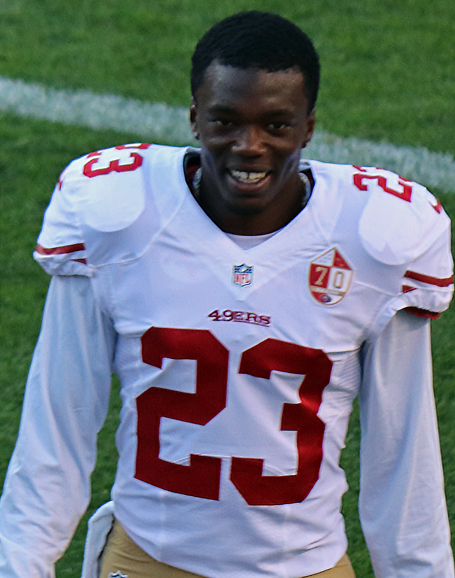 Will Redmond, a player on the National Football League.